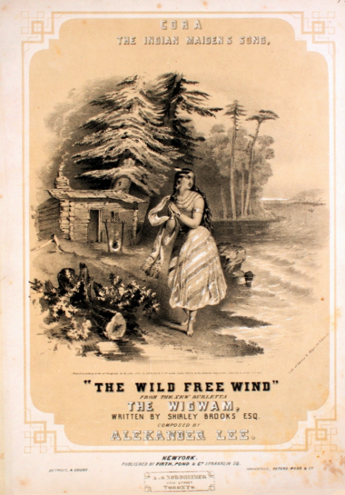 Sheet music cover: "Cora, the Indian Maiden's Song", subtitled "The Wild Free Wind".